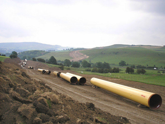 The Gasman Cometh. A gas pipeline laid out ready for burial. National Grid is constructing a new 94km pipeline between Pannal near Harrogate and Nether Kellet near Lancaster. The new gas pipeline, which will have a diameter of 48 inches, is one of four which will link to form a trans-Pennine pipeline carrying gas from a terminal at Easington on the Yorkshire coast across to the North West.